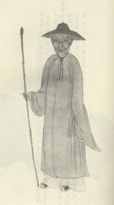 Wu Li, painter of the Qing Dynasty.